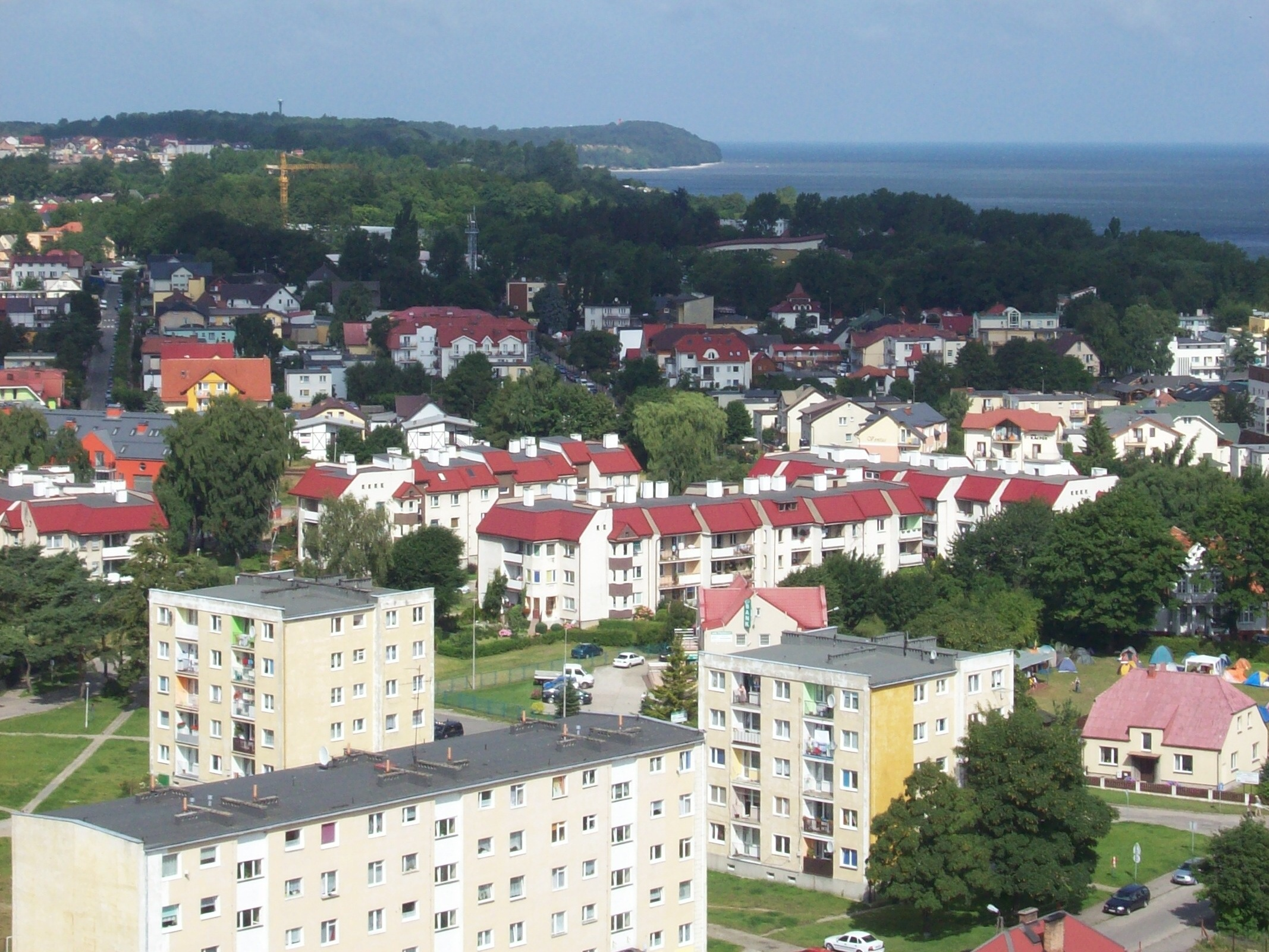 Władysławowo west